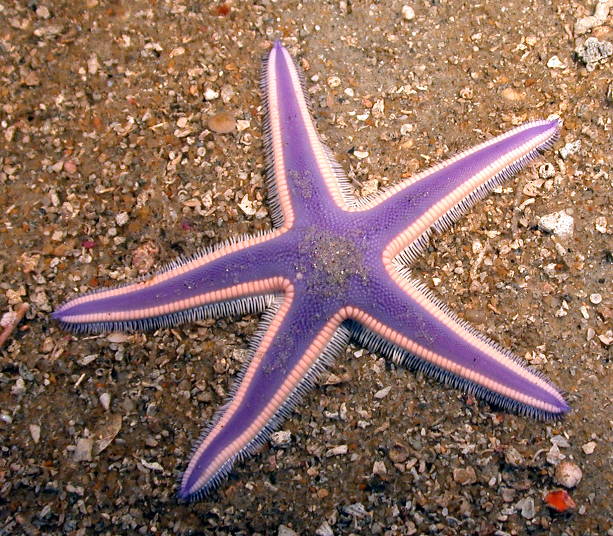 Starfish. Atlantic Ocean, Southeast U.S. shelf/slope area.